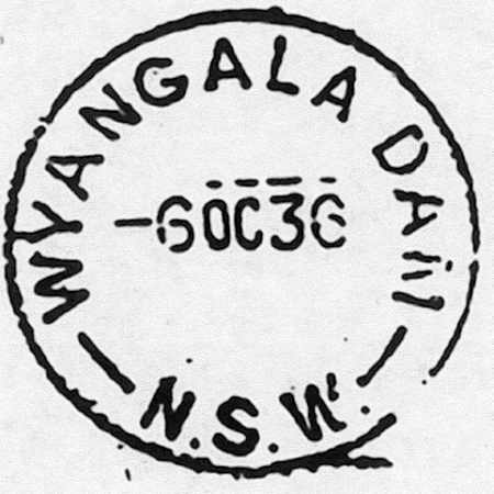 The Wyangala Dam post office opened on 14 March 1929 and the first postmark was of the Type 2C configuration, with a stop after the ‘W’ of ‘N.S.W.’ and closed in 1998